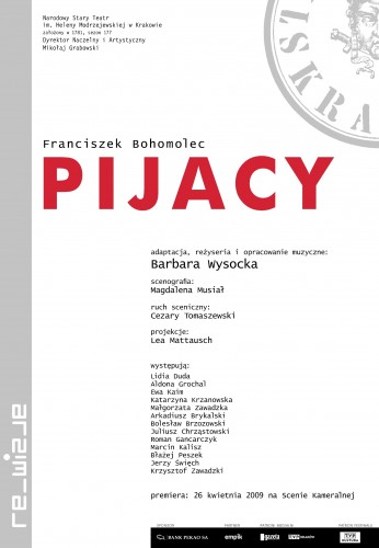 Announcement for the play Drunkards by Franciszek Bohomolec. Old National Theatre, Kraków.